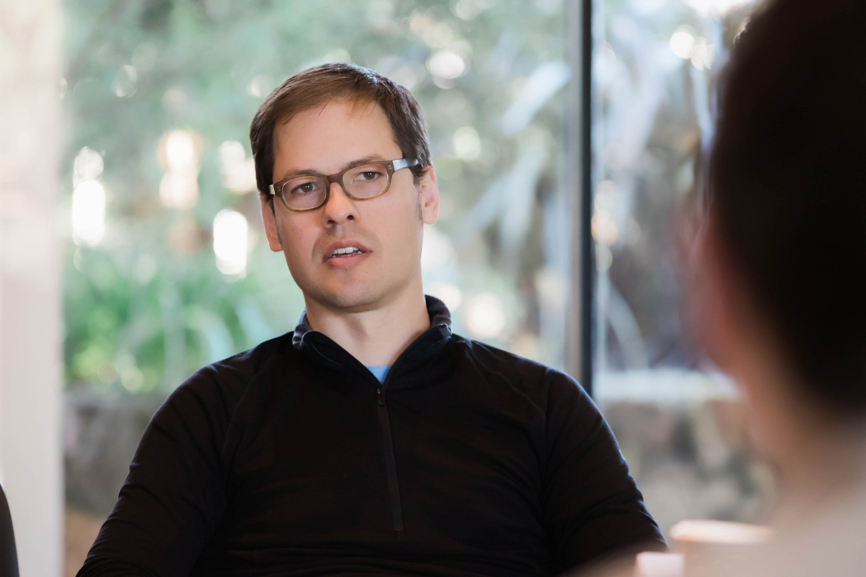 Photo of D Scott Phoenix at Berggruen Philosophy & Culture Center Ideas Workshop